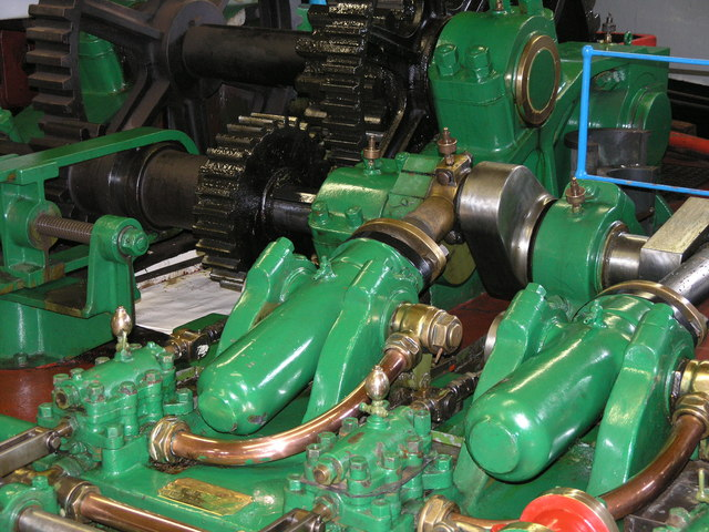 Machine Room. Swing Bridge. Original Operating Machinery on the Swing Bridge